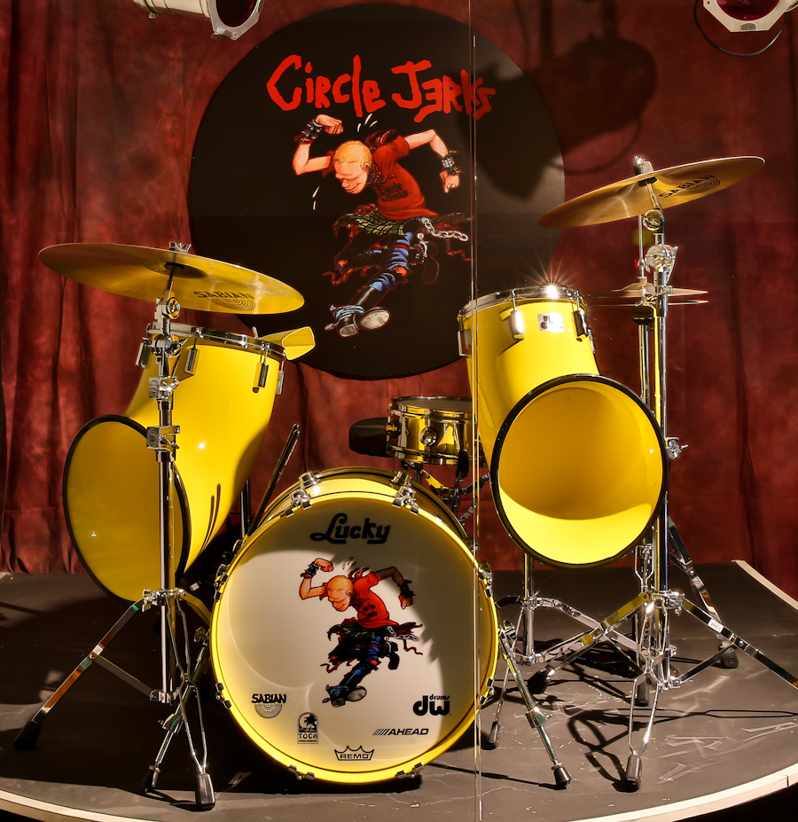 Lucky Lehrer drums at Hard Rock Casino LV. "Skanking punk" figure illustration by Shawn Kerri